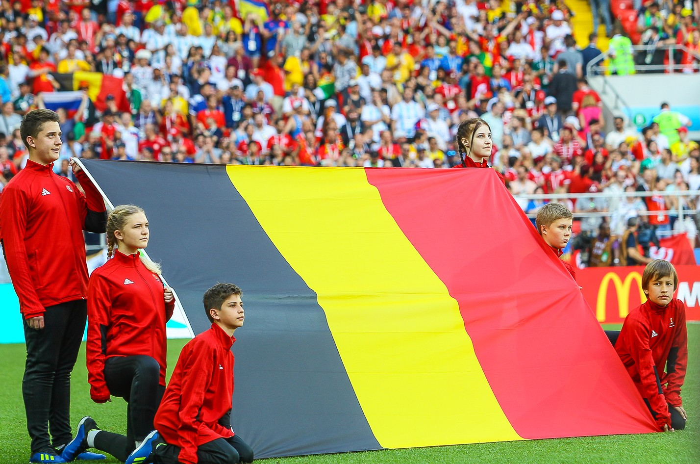 Belgium and Tunisia match at the FIFA World Cup 2018-06-23